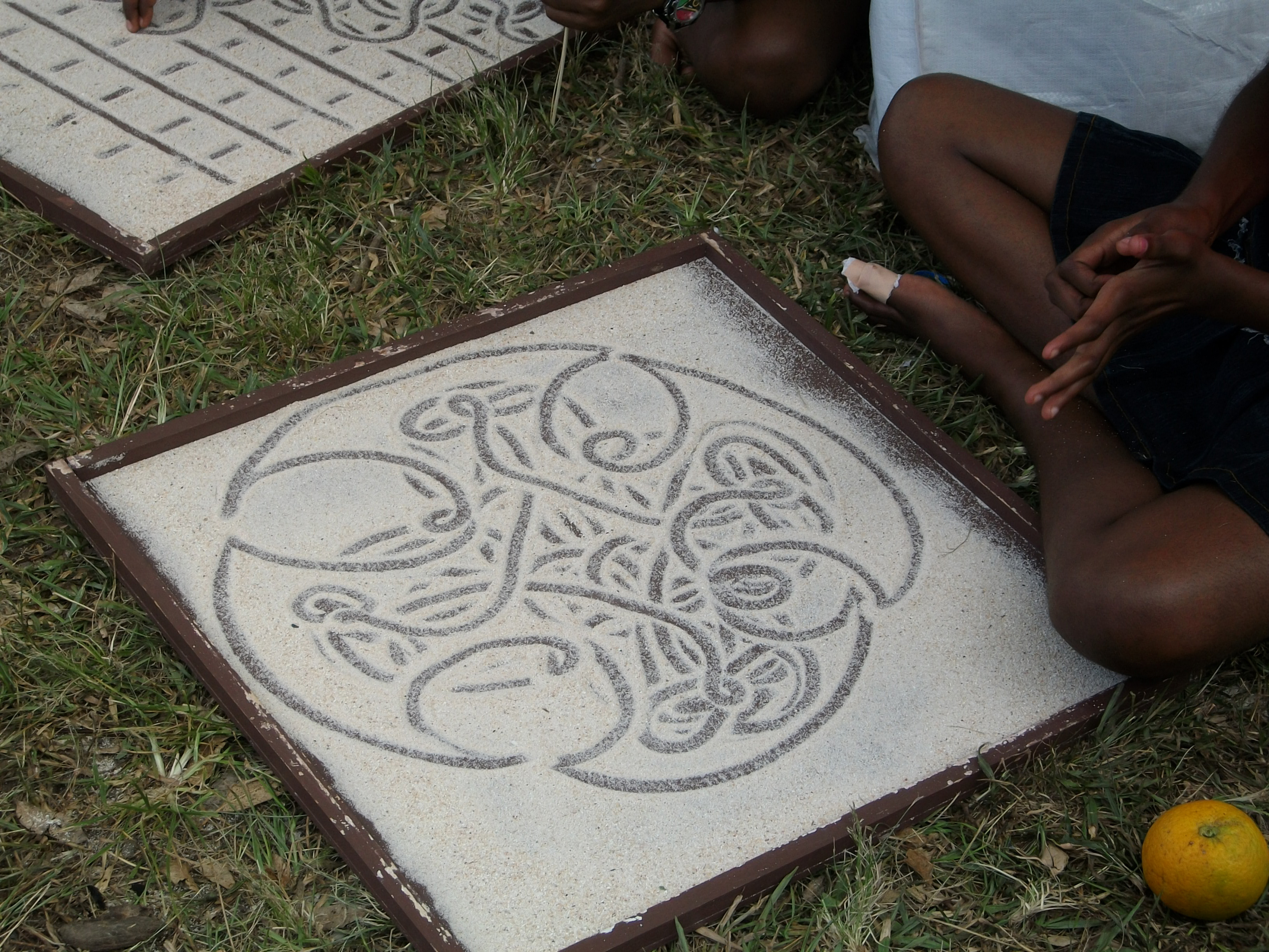 Vanuatu sand painting at Lafoa, New Caledonia during the Melanesian Festival